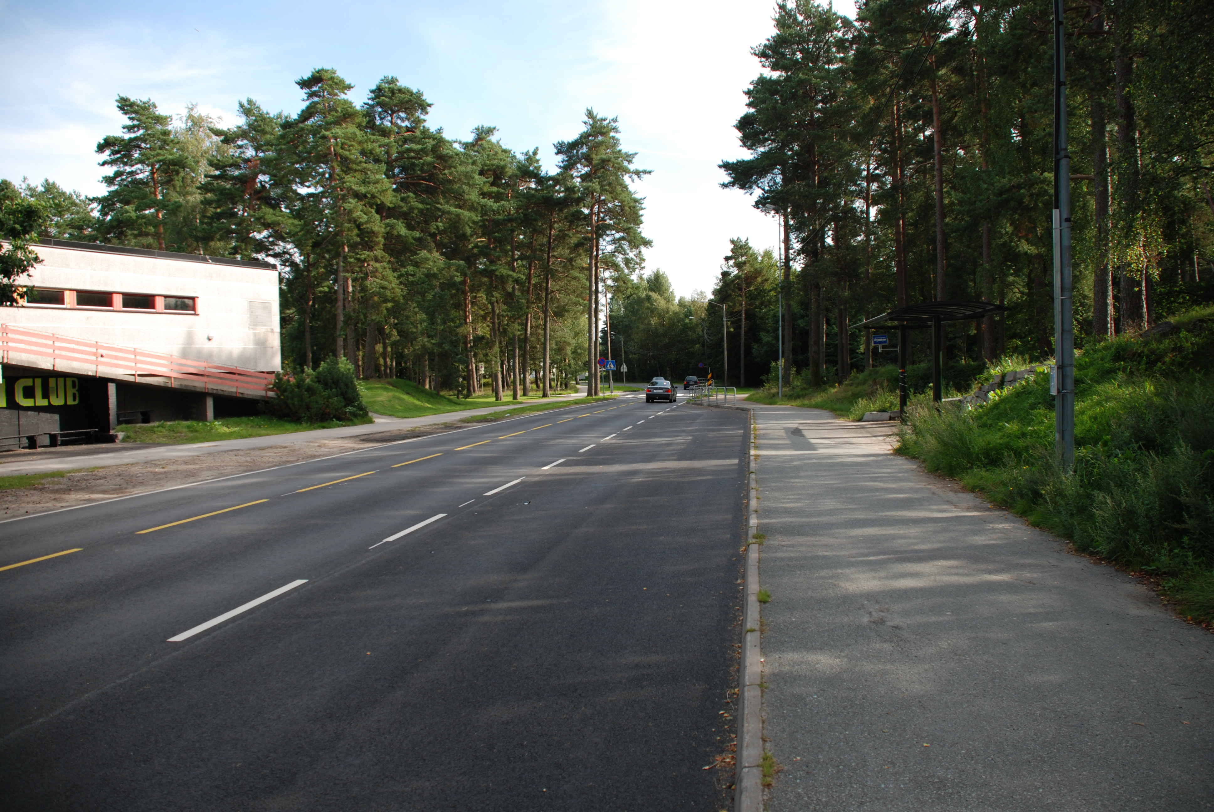 Fridtjof Nansens Vei in Mandal, Vest-Agder, Norway.